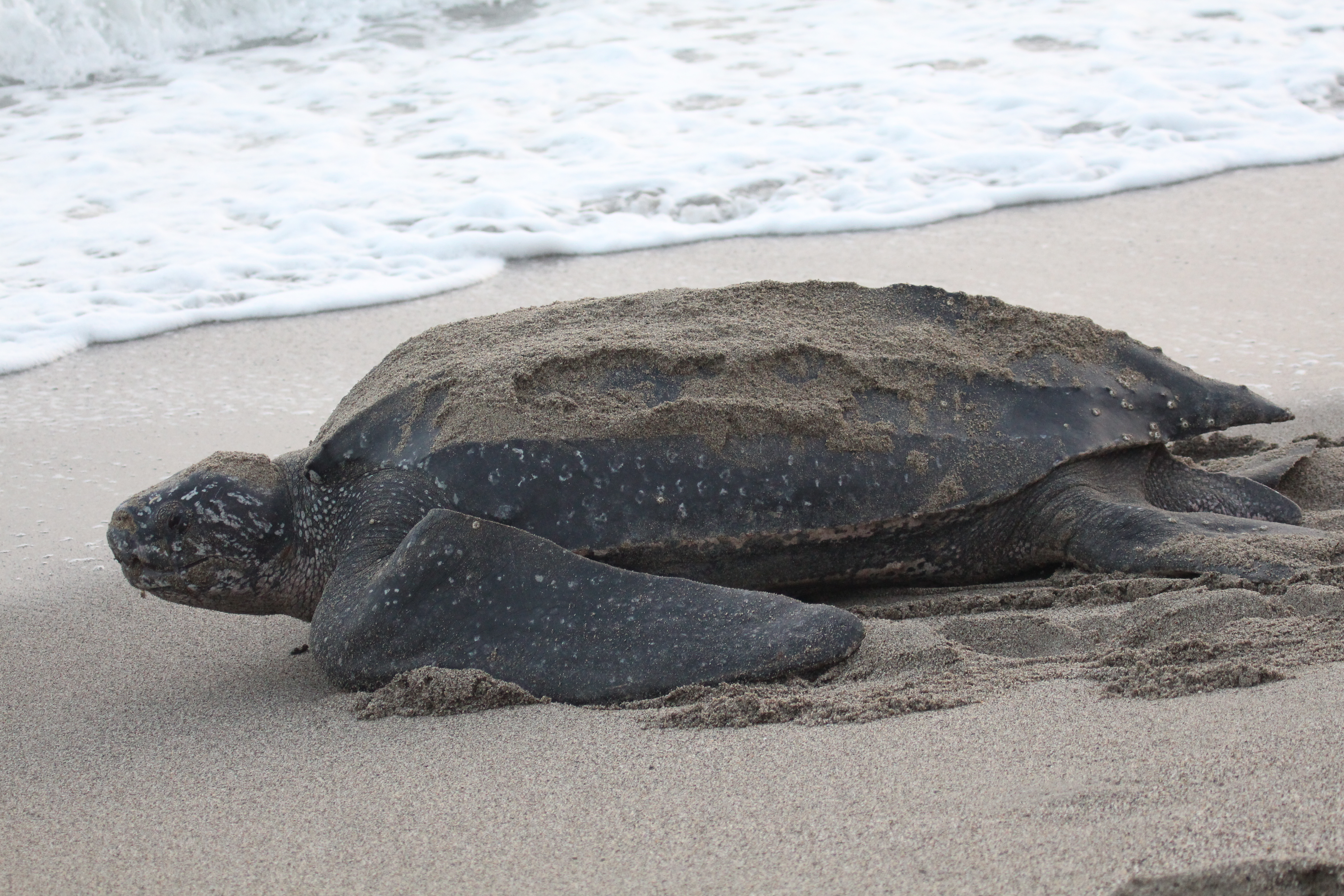 A great privilege to share a beach with half a dozen of these huge reptiles.